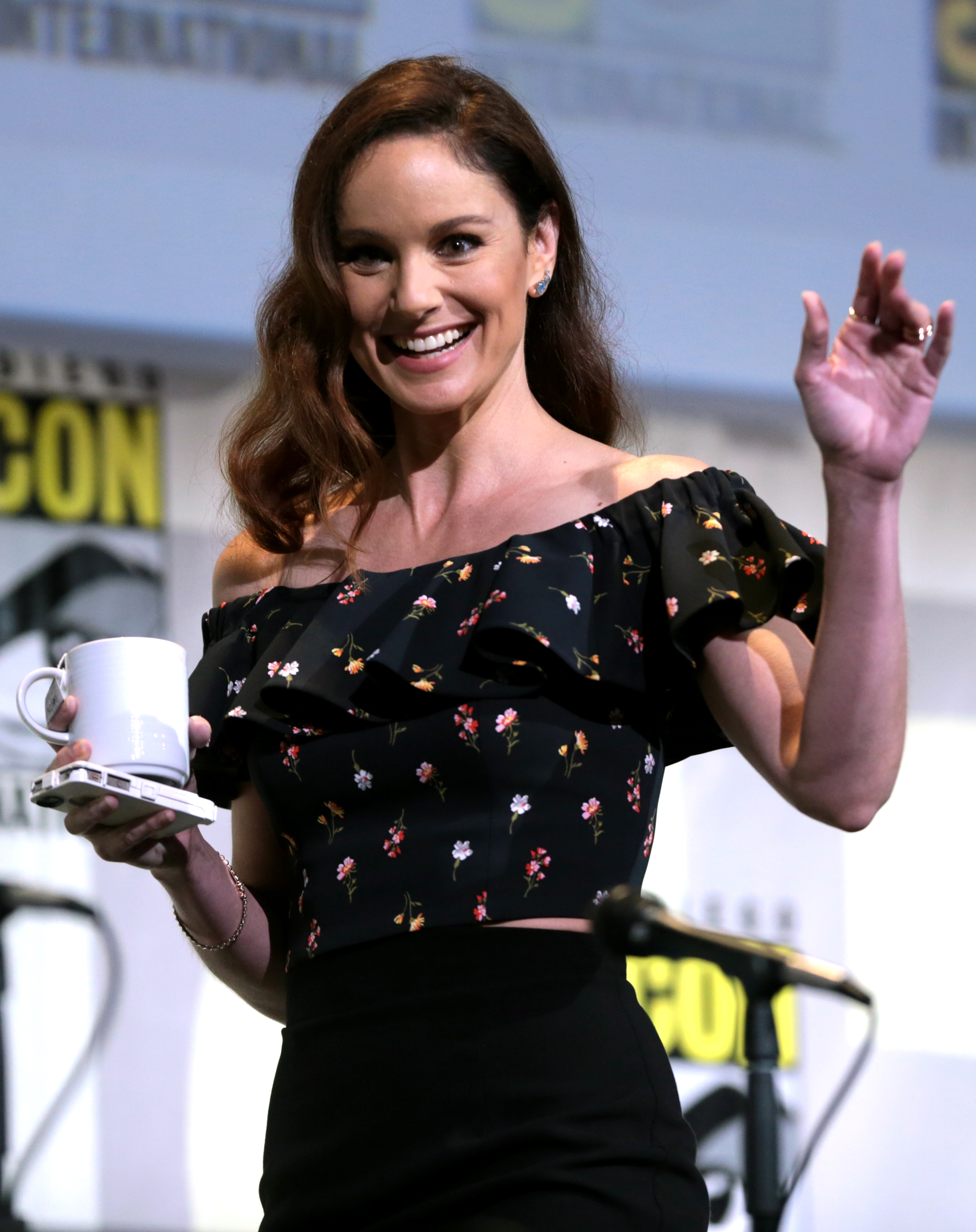 Sarah Wayne Callies speaking at the 2016 San Diego Comic-Con International in San Diego, California.